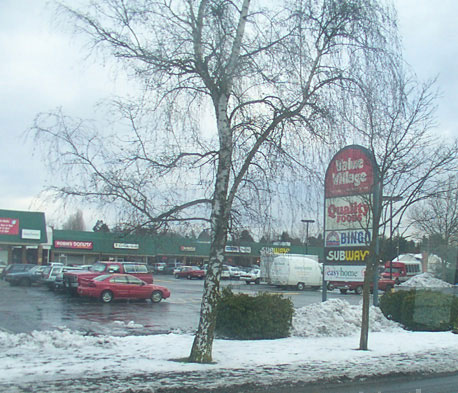 Harewood Mall, Nanaimo, British Columbia. Taken December, 2003